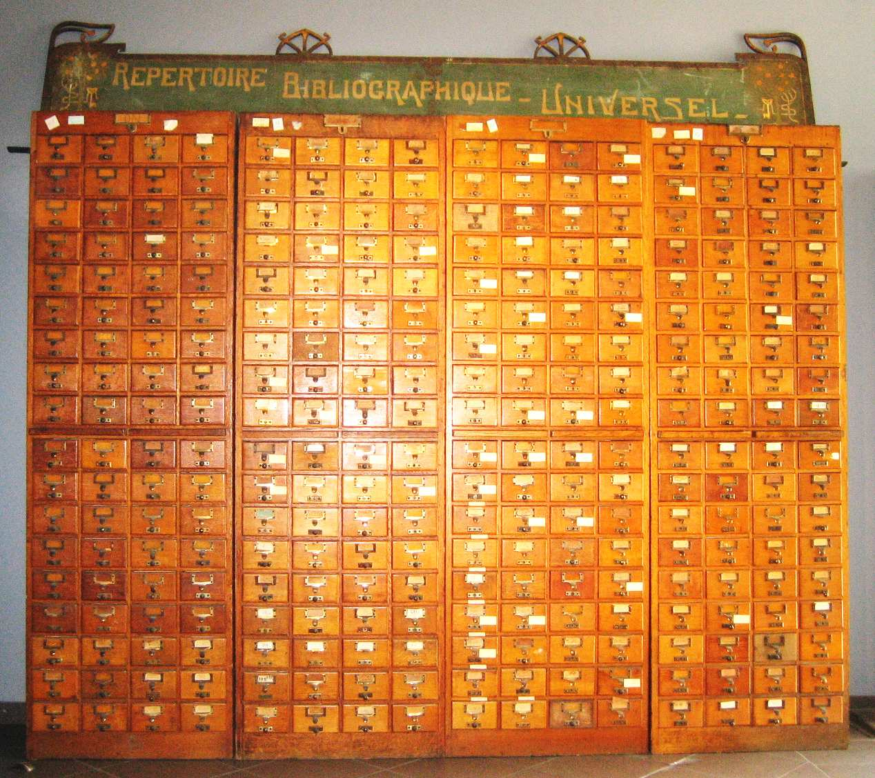 Drawers with bibliographic index cards of Paul Otlet's "Universal Bibligraphical System", part of the Mundaneum, today in Mons, Belgium.